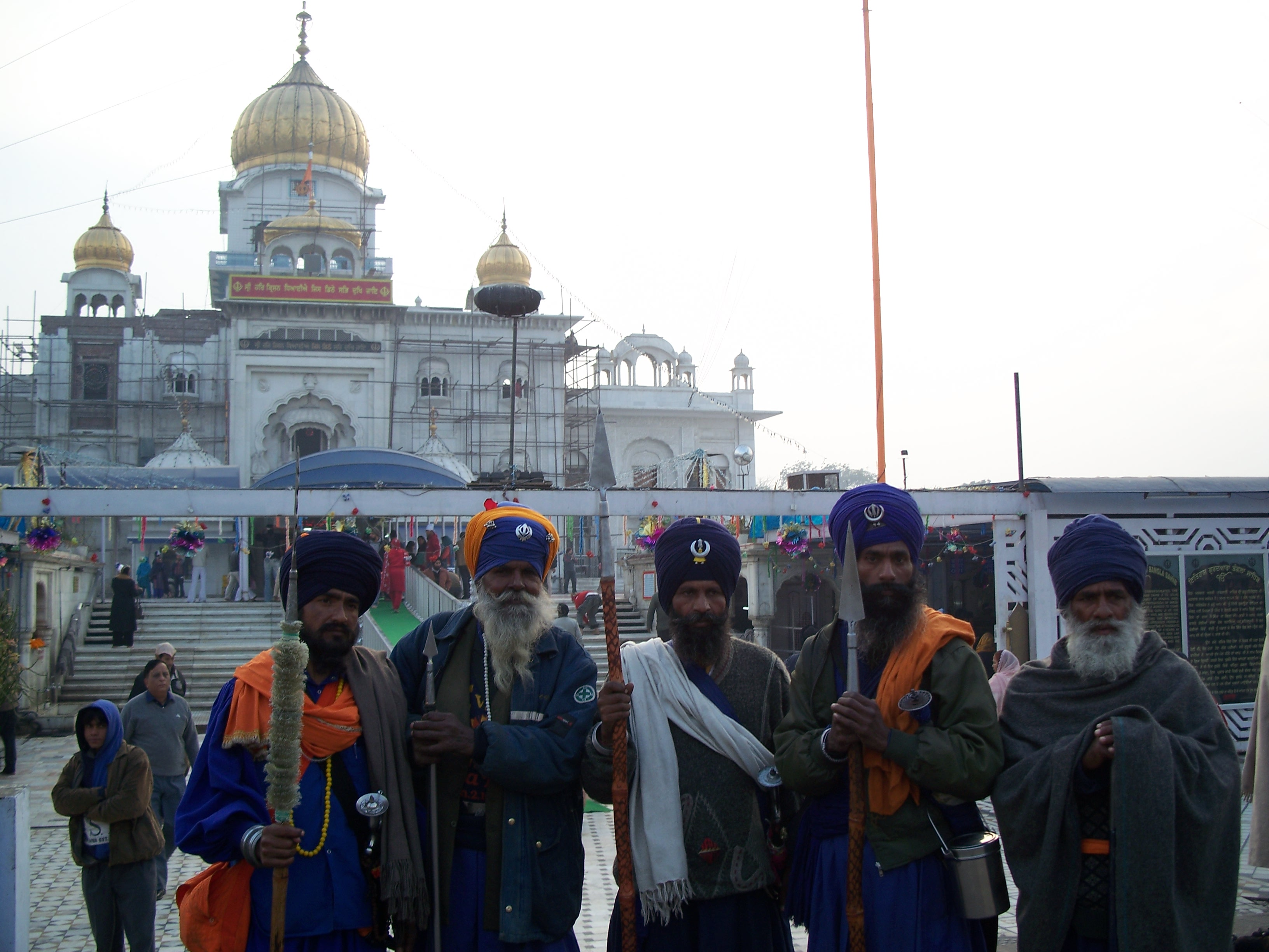 Group of Nihang Singhs with Gurudwara Bangla Sahib in background